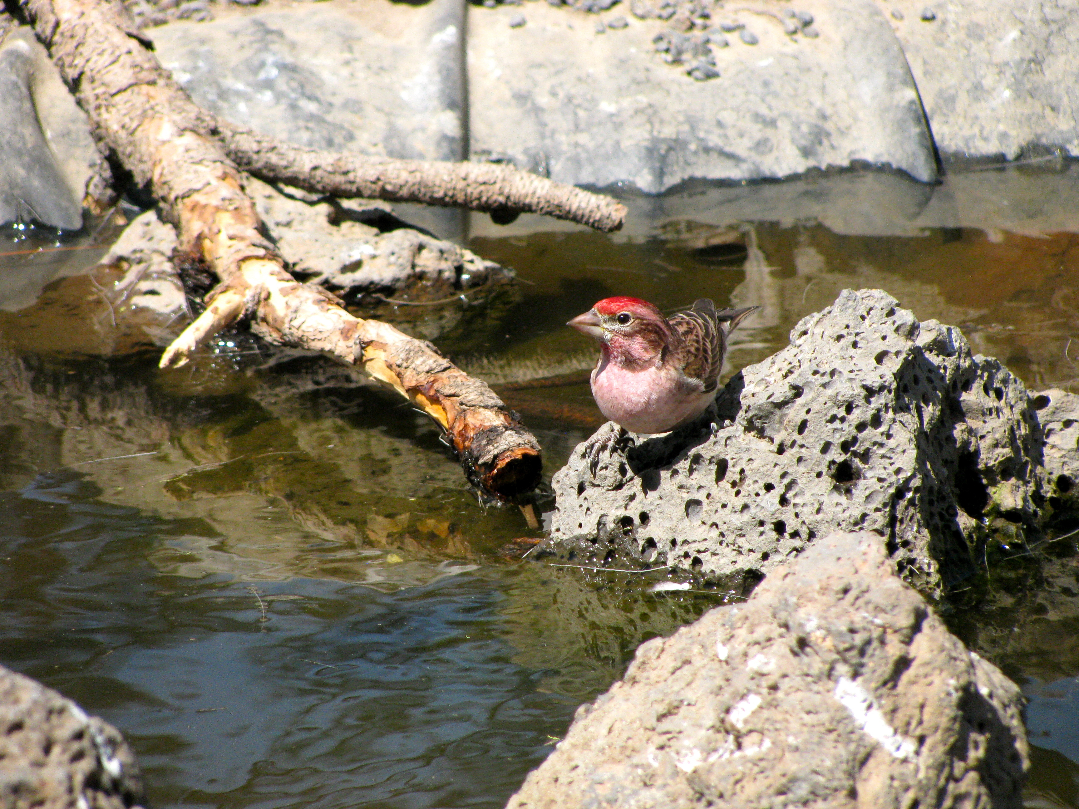 Photo by Simon Wray, Oregon Department of Fish and Wildlife Cassin's Finch (Carpodacus cassinii) This finch of montane pine and aspen forests is a surprisingly talented mimic, often incorporating songs and calls of the Mountain Chickadee, American Robin, Western Tanager, White-breasted Nuthatch, and Townsend's Solitaire into its own song. Adult male Cassin's Finches have bright crimson rose-pink caps, slightly paler pink upper chest and rump, and pale pink streaks in the wings. The colorful cap ends abruptly at the brown nape of the neck. Females and first-year males and females are identical. The Cassin's Finch is a fairly common summer resident from the Cascade summit eastward throughout all mountainous and forested regions of eastern Oregon. Male shown